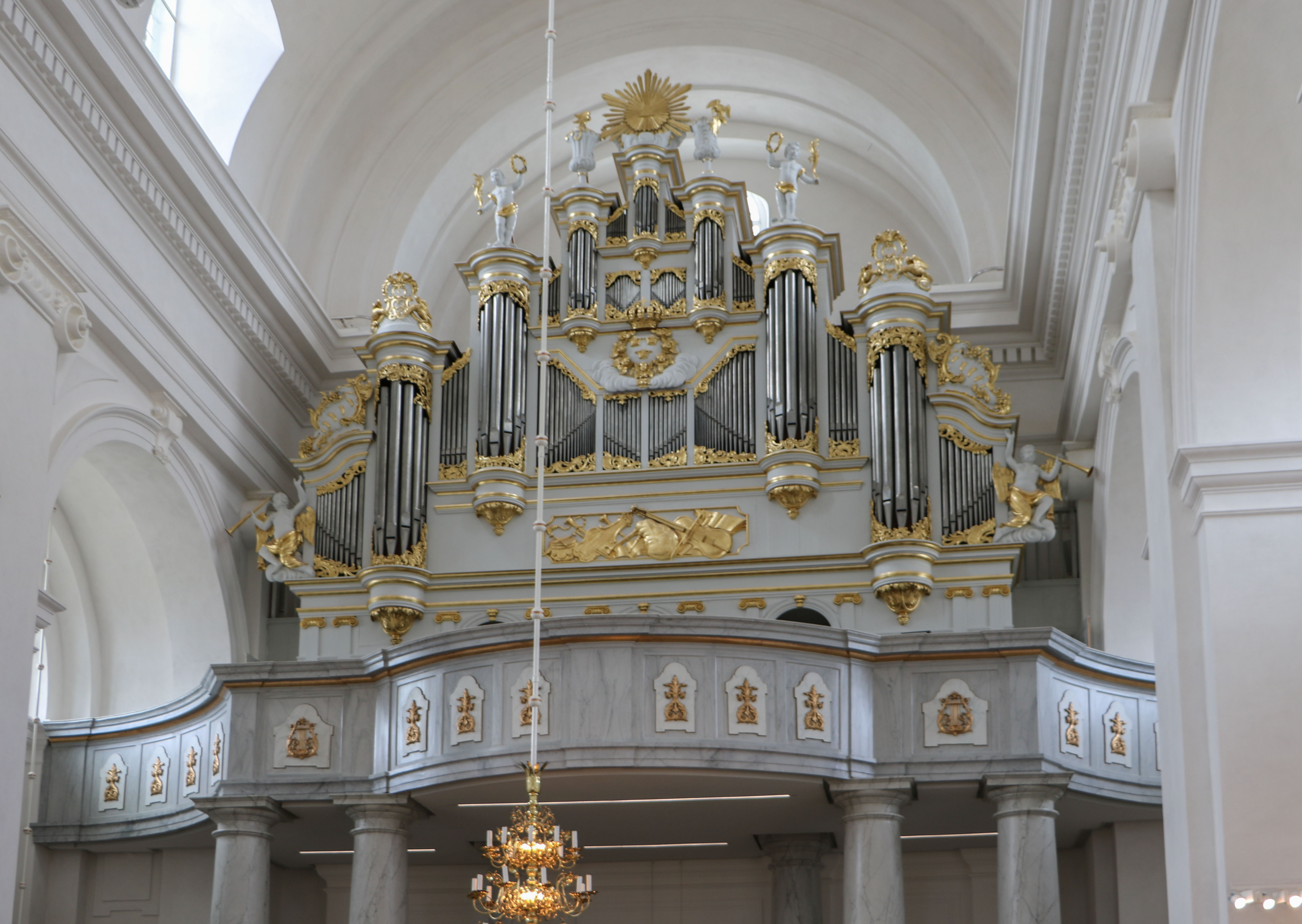 Fredrik Church,Karlskrona.The organ